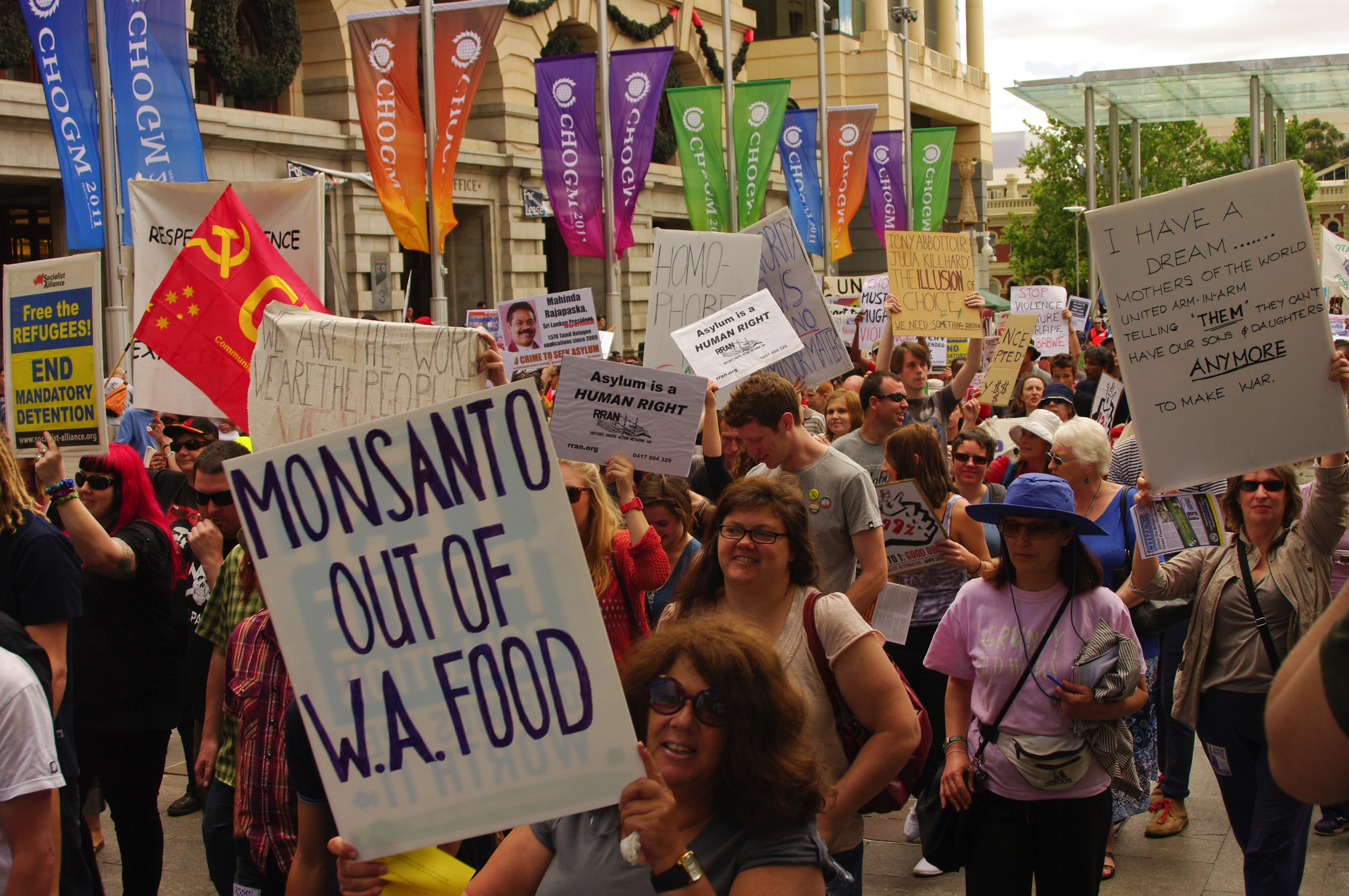 CHOGM 2011, protest that took place on the opening day